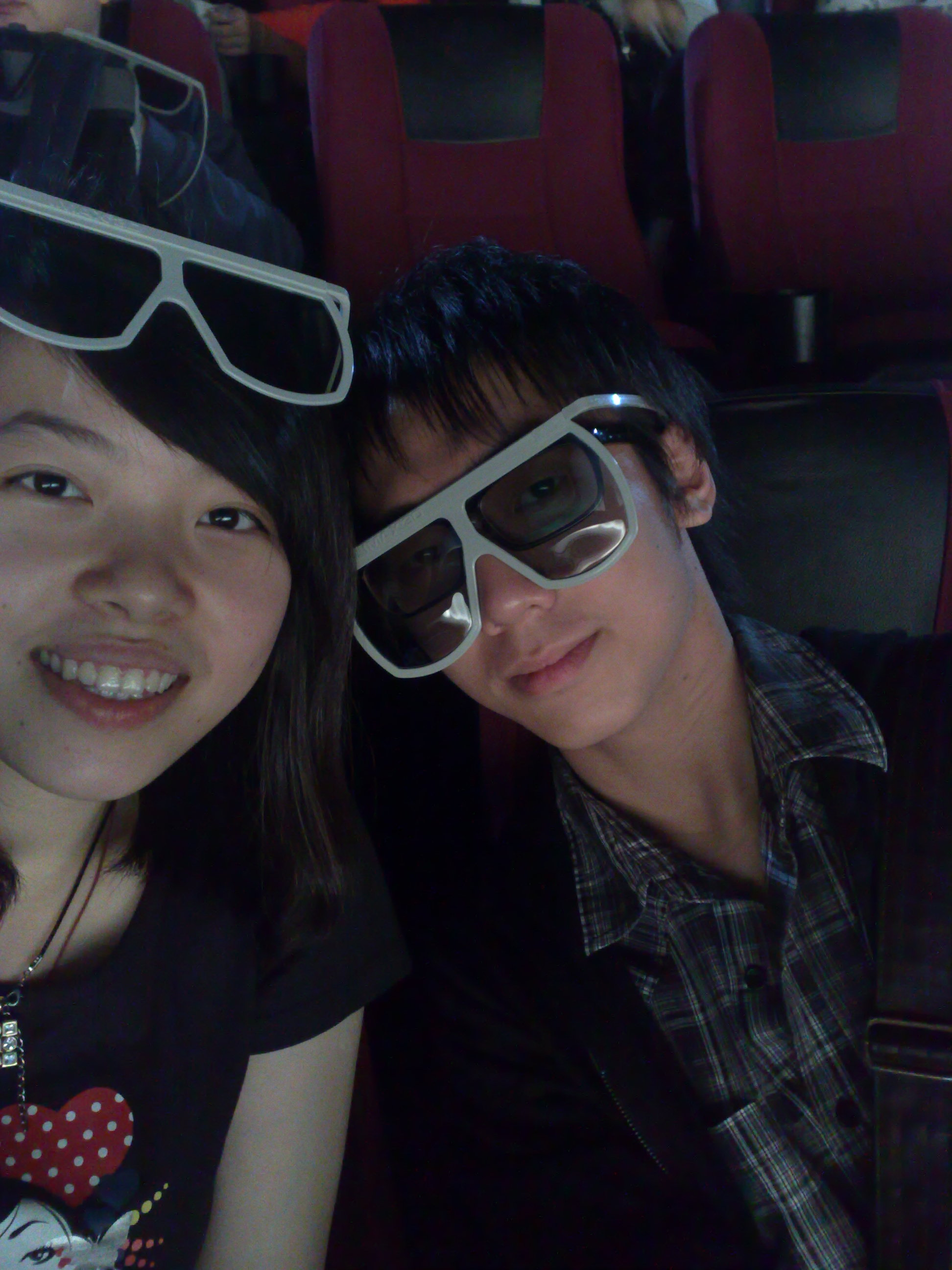 Two people wear the 3D glasses.